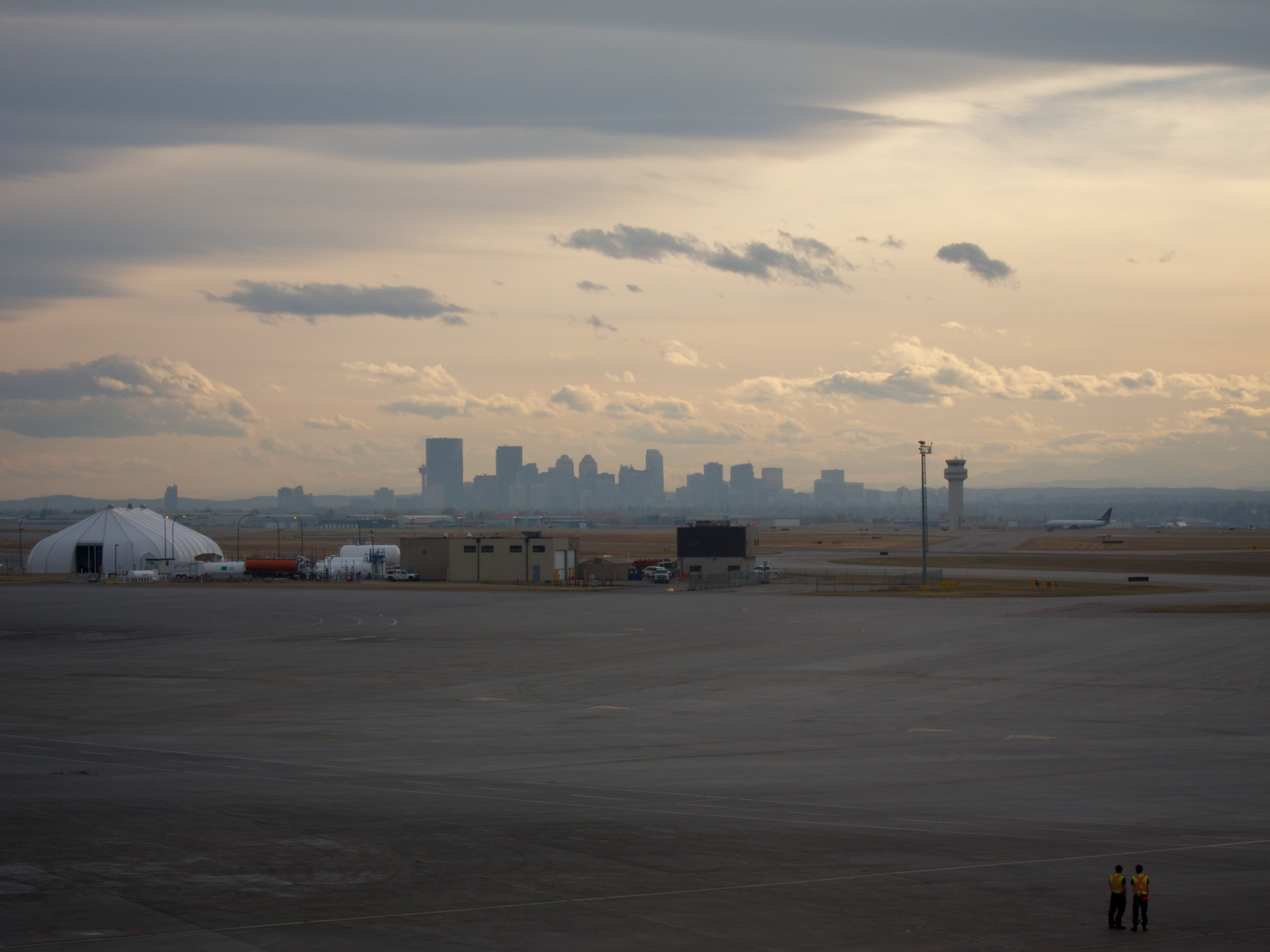 Calgary from YYC